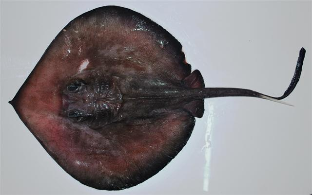 Deepwater stingray (Plesiobatis daviesi) from Cochin, India (from FishBase).